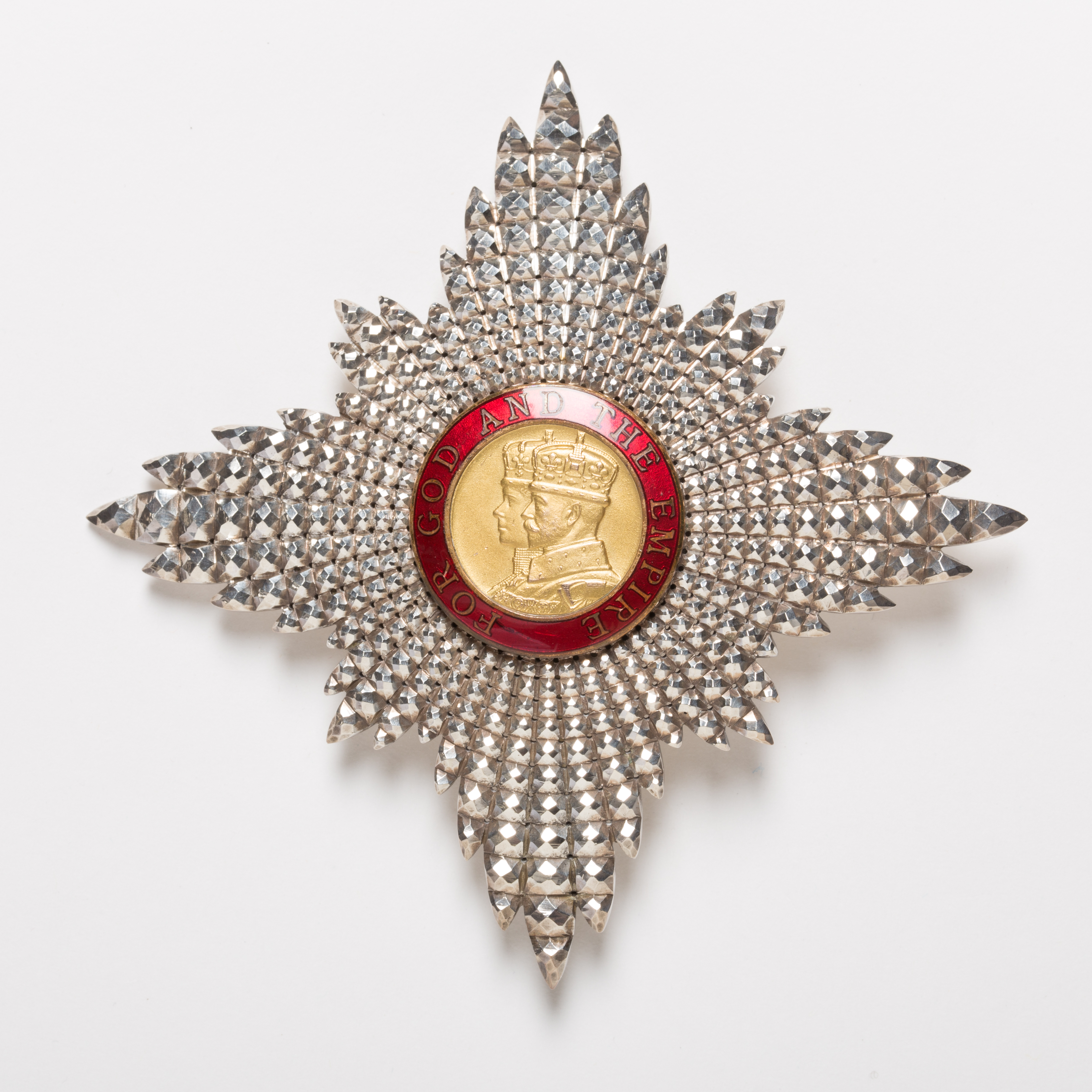 Knight Commander of the Most Honourable Order of the British Empire- Breast Star Awarded to Donald Petrie Simson in 1939 an eight-pointed silver star with four large points and four smaller points, it bears a crimson ring with the motto of the Order inscribed. Within the ring are busts of George V and Mary of Teck are shown